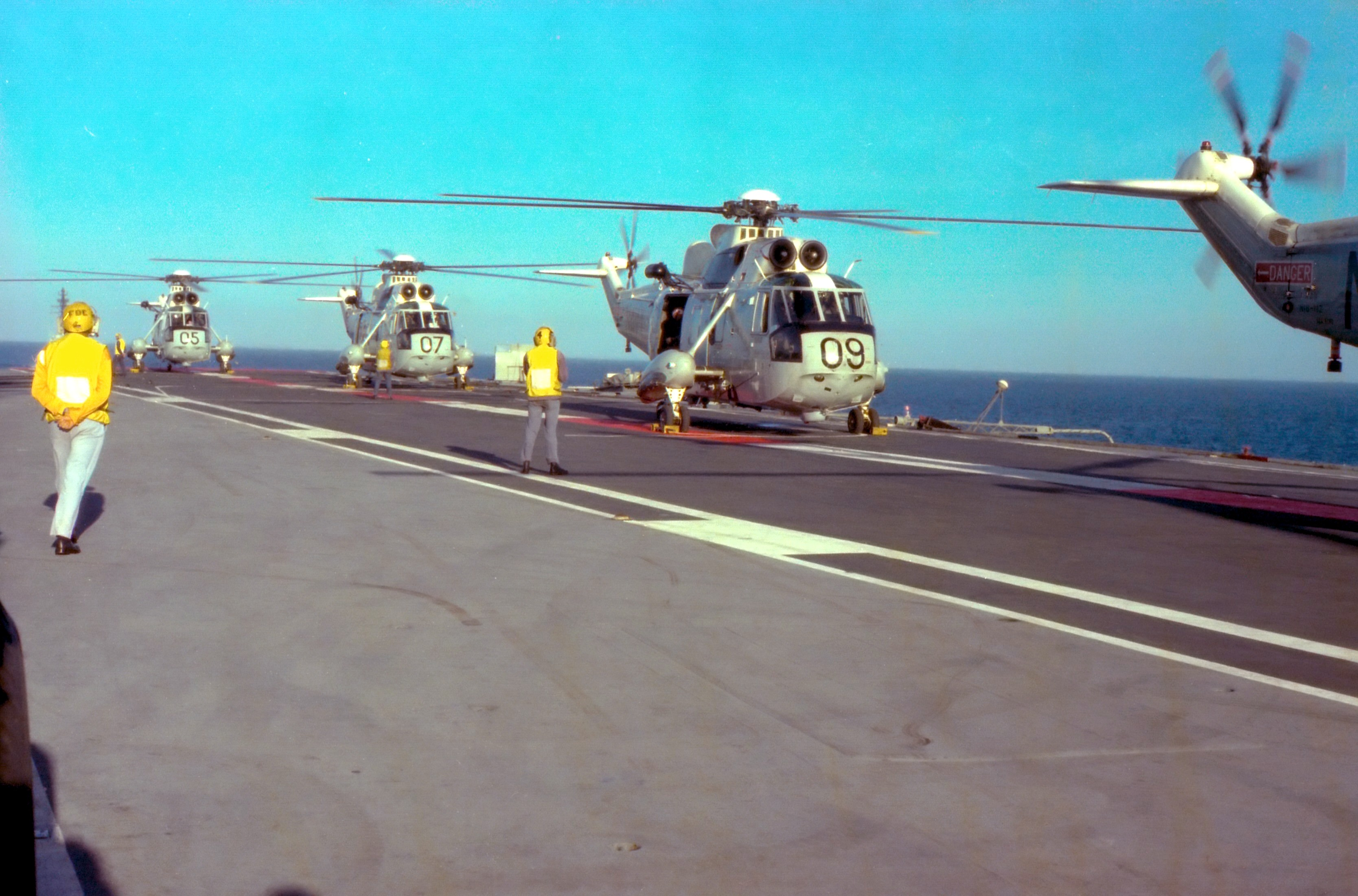 Sea King Helos of HS-817 Squadron preparing to launch from HMAS Melbourne